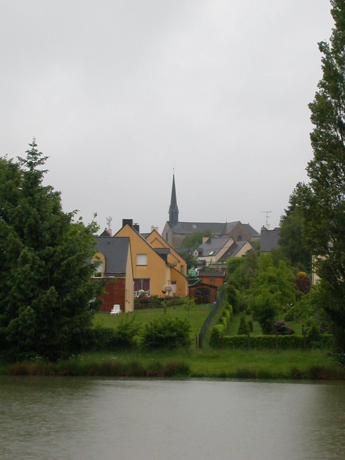 Genral view of Crevin from the pond